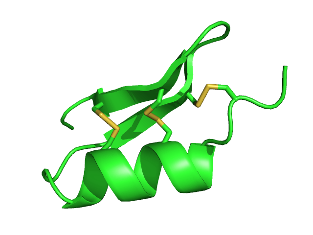 Cartoon diagram of scyllatoxin generated from 3D structure in PDB